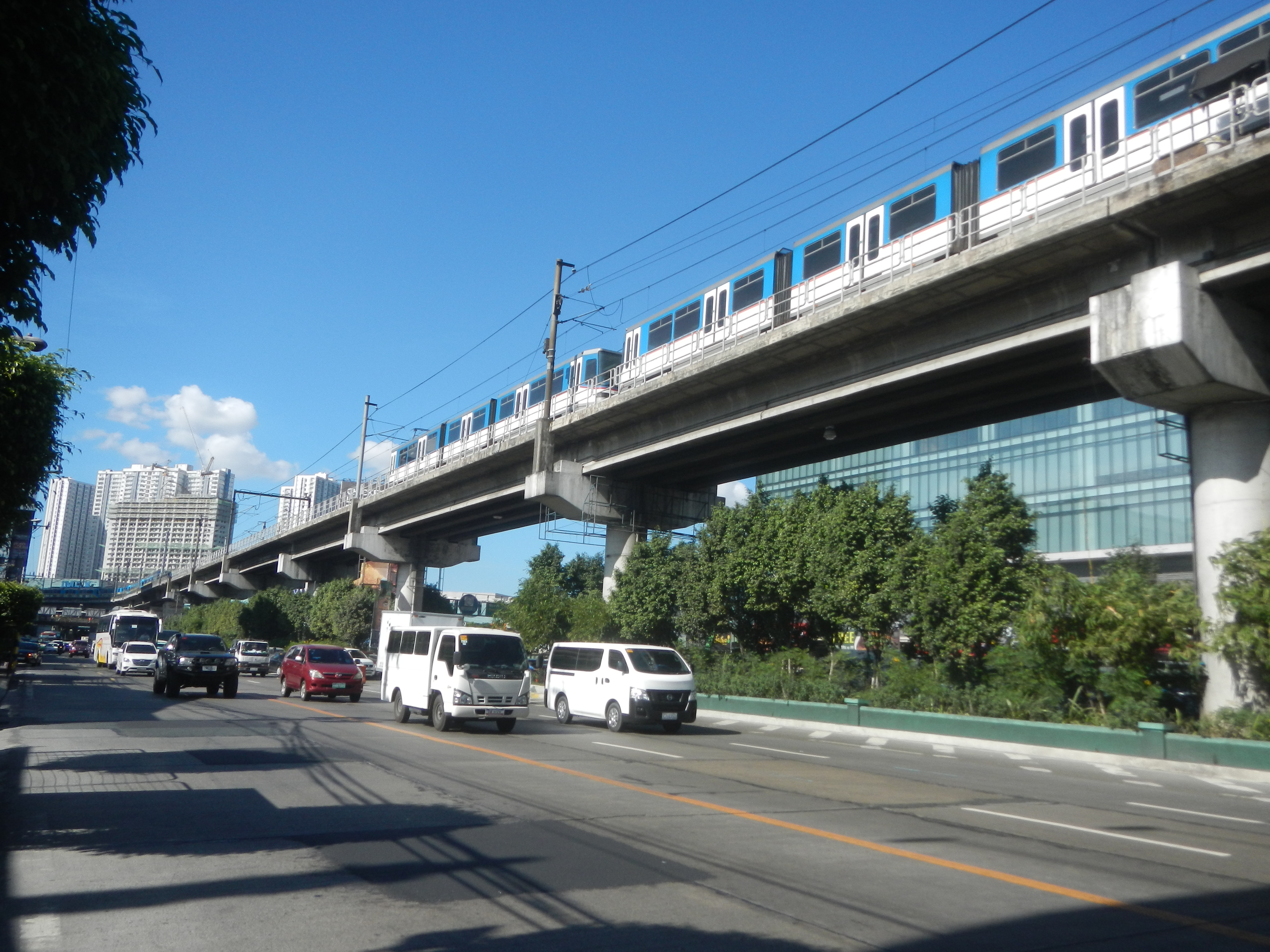 North Avenue MRT Station to Araneta Center-Cubao LRT Station to Santolan–Annapolis MRT Station Epifanio de los Santos Avenue (EDSA) 14°34'40"N 121°3'3"E Epifanio de los Santos Avenue (EDSA, North-West Avenue section) of the EDSA (road) Epifanio de los Santos Avenue Highway 54 in List of barangays of Metro Manila Legislative districts of Quezon City Districts 3, Barangays of Quezon City, Barangays South Triangle, San Martin de Porres 14°37'4"N 121°2'58"E Kaunlaran, Immaculate Conception, District III, Cubao, Quezon City (Note: Judge Florentino Floro, the owner, to repeat, Donor Florentino Floro of all these photos hereby donate gratuitously, freely and unconditionally all these photos to and for Wikimedia Commons, exclusively, for public use of the public domain, and again without any condition whatsoever).